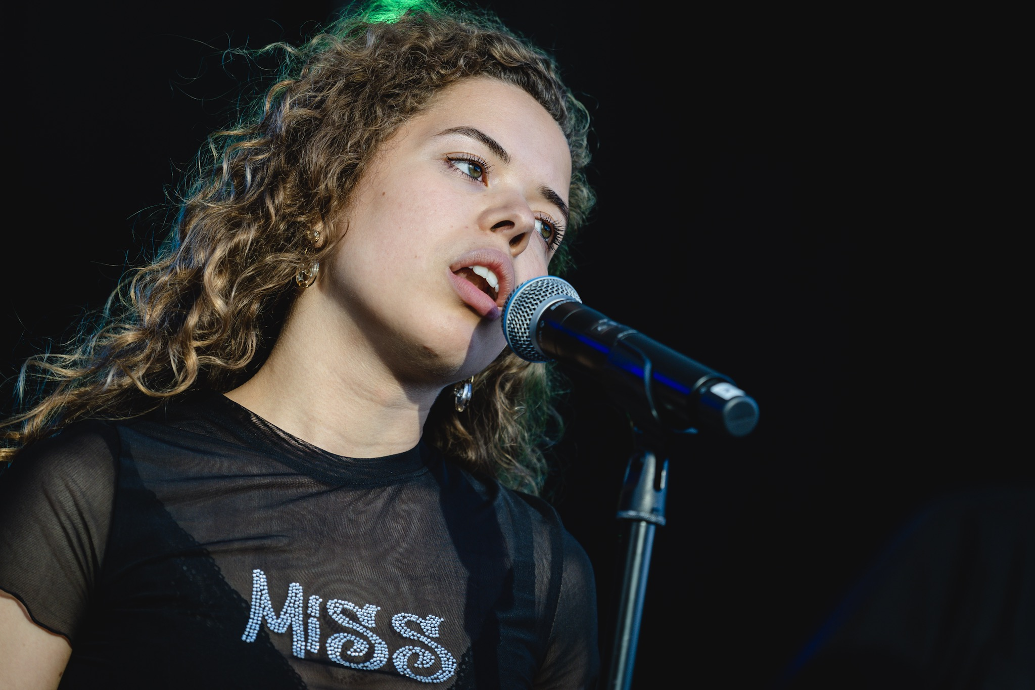 Turning Tides Festival: Gruf Rhys and Nilufer Yanya